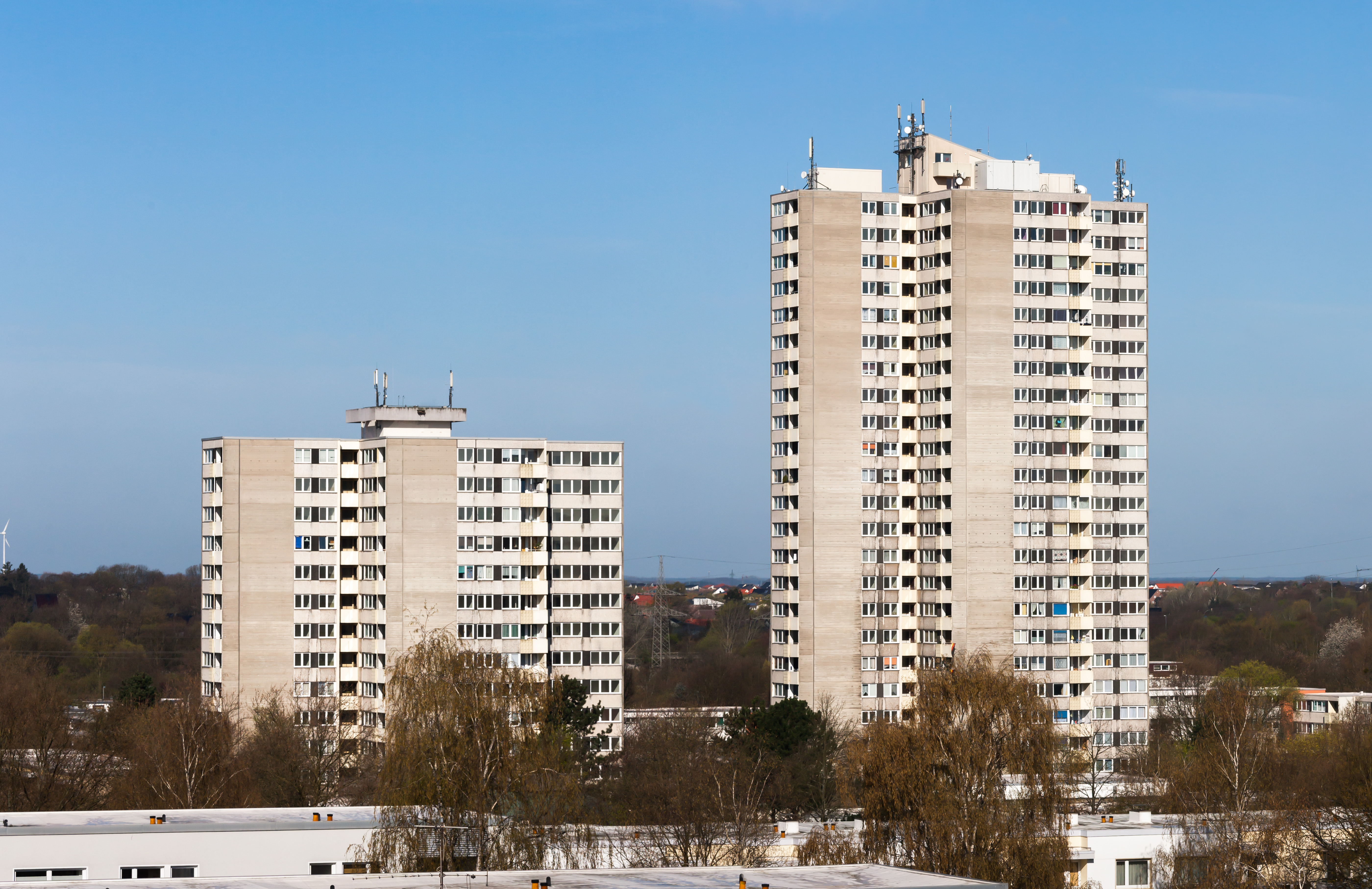 Don Camillo & Peppone, Detmerode, Wolfsburg, Germany